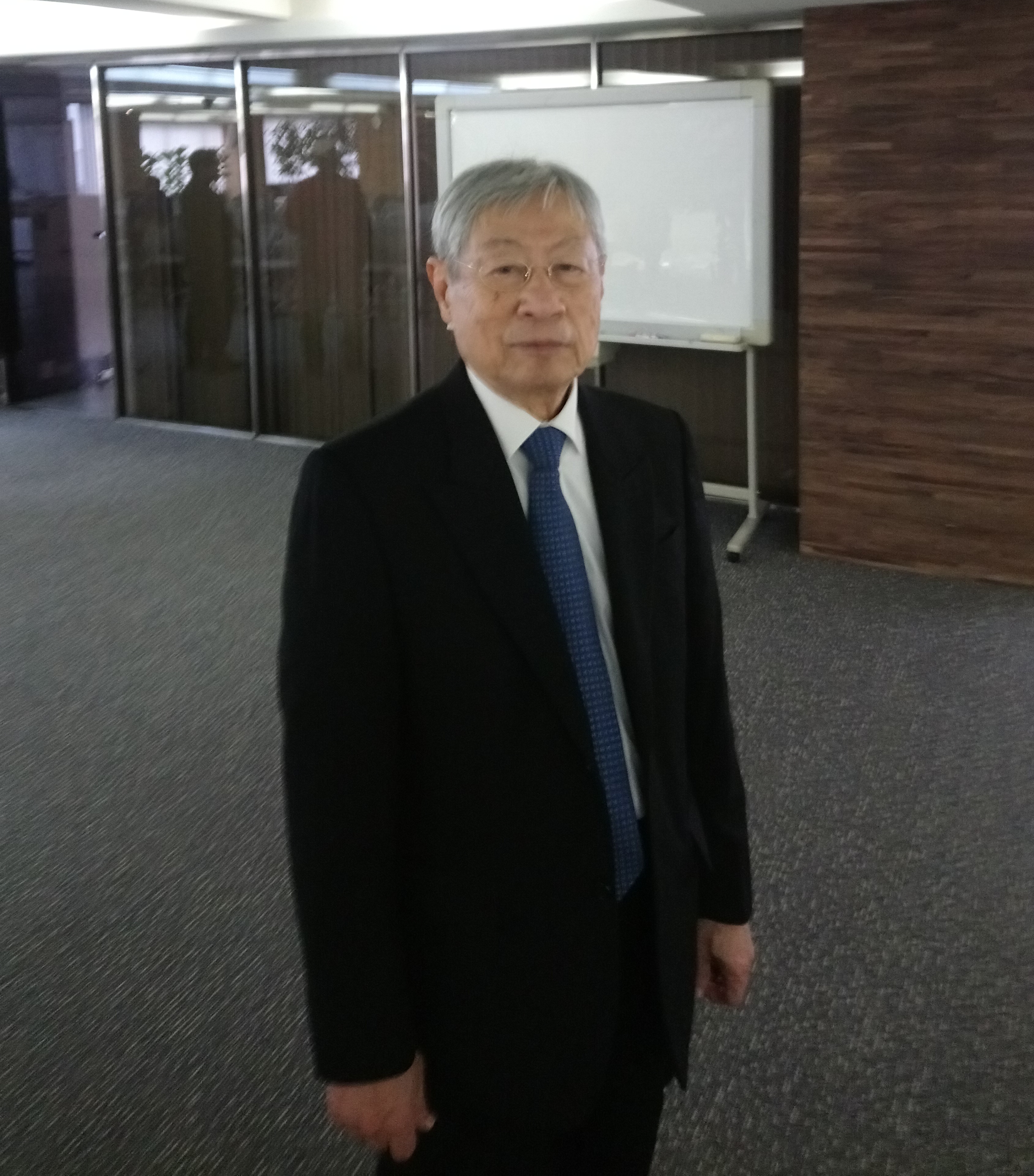 Cheng Tzu-tsai